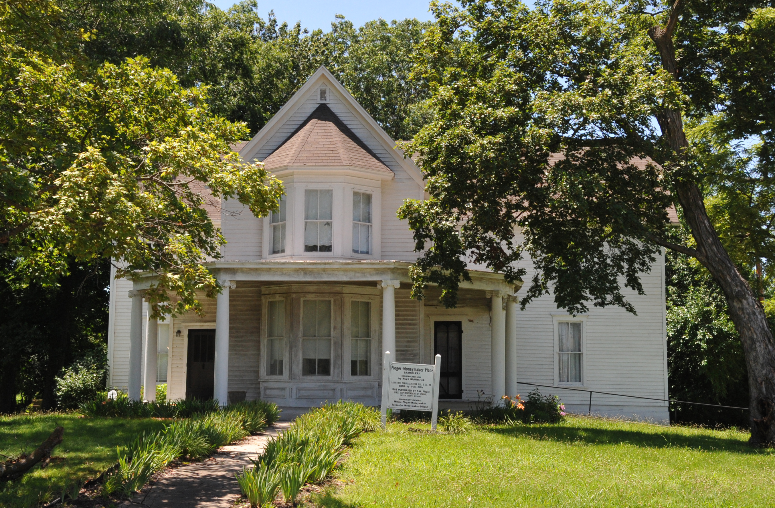 ERECTED IN 1890 AND ORIGINALLY CALLED AAMBLER; PURCHASED BY THE PLOGER FAMILY IN 1903. LOGER WAS FIRsT SUPERINTENDENT OF LACLEDE SCHOOLS. MONEYMAKER WAS A LATER OWNER